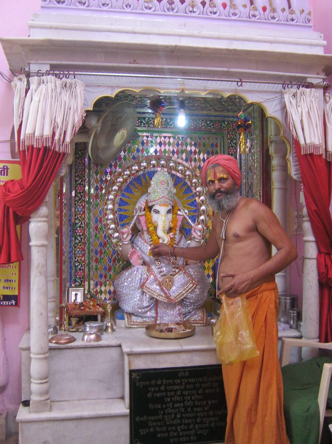 A monk offering Pooja of Lord Ganesh